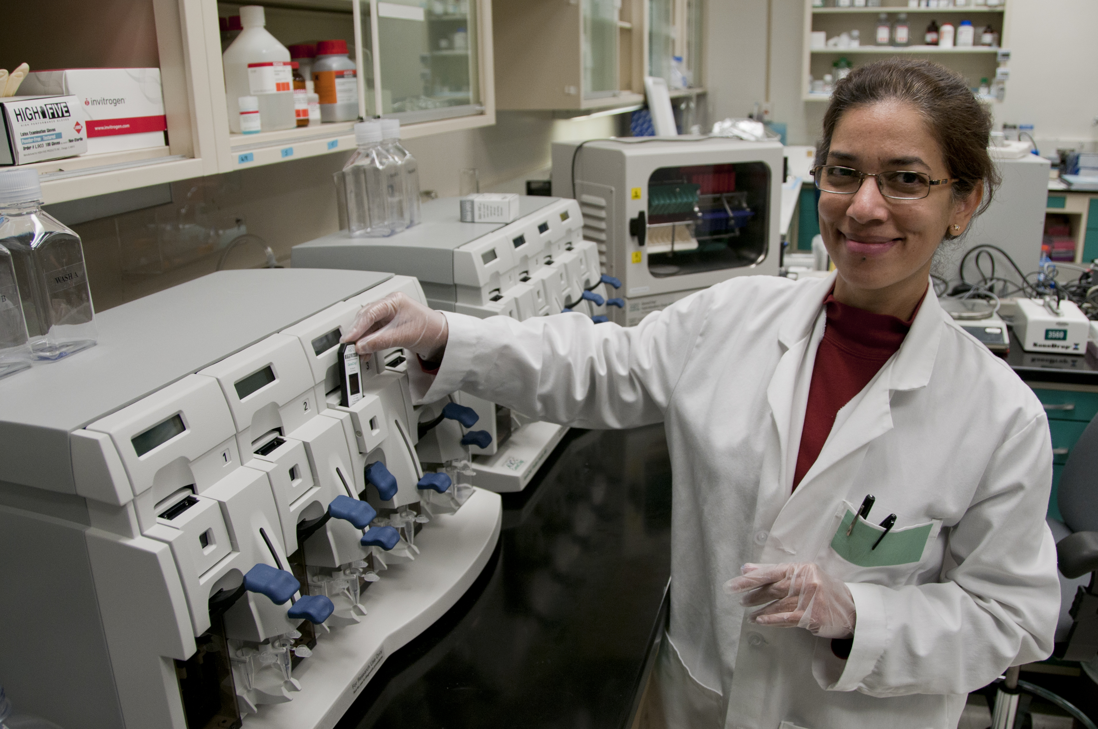 NCTR scientist processing a microarray to measure and assess the level of genes found in a tissue sample. The National Center for Toxicological Research (NCTR) is FDA's internationally recognized research center. The unique scientific research expertise of NCTR is critical in supporting FDA product centers and their regulatory science roles. For more about NCTR, read the Consumer Update at FDA photo by Michael J. Ermarth